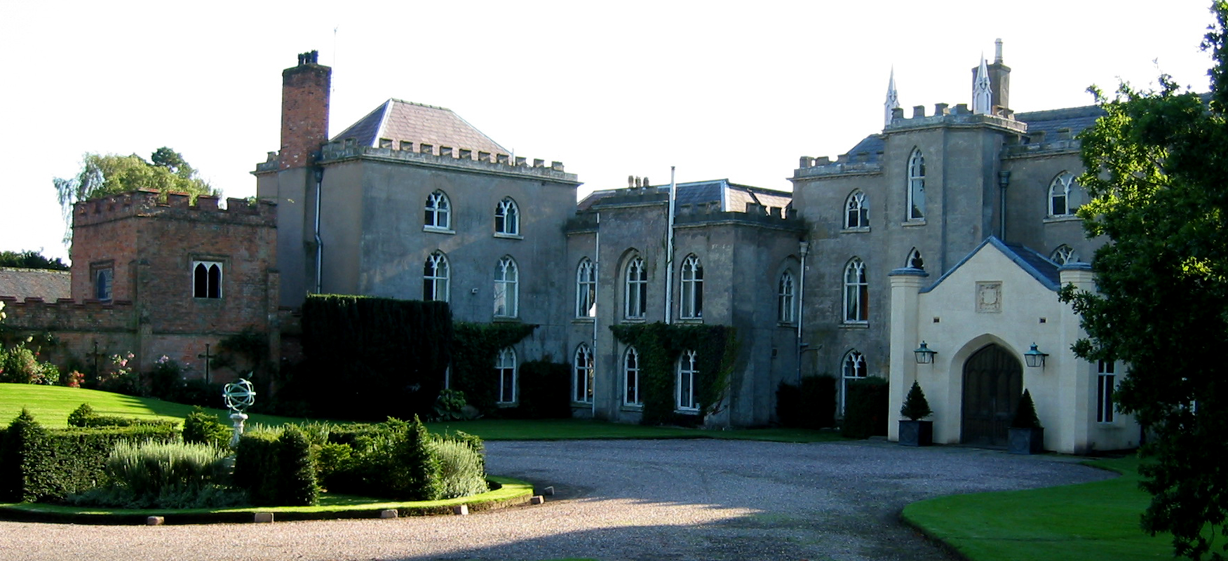 Combermere Abbey; view from east